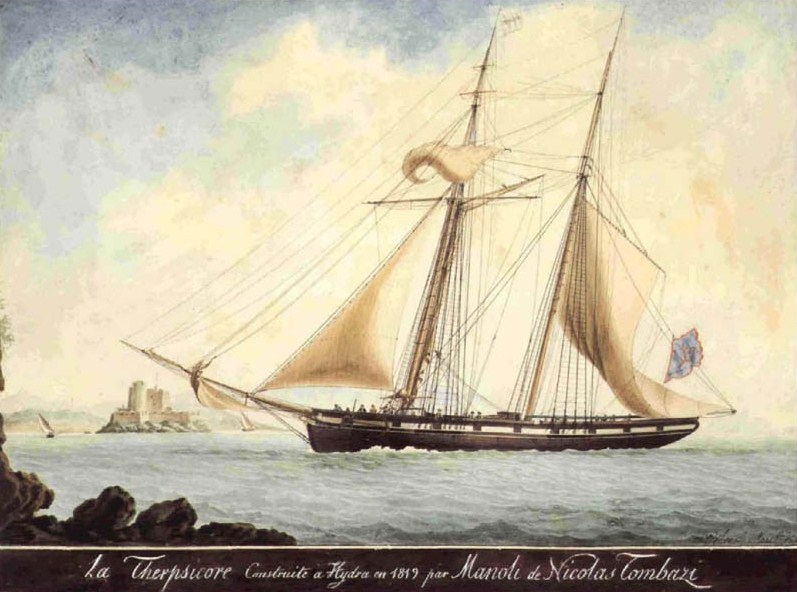 Schooner Therpsicore, belonging to Manolis Tombazis from Hydra, built in 1819, with hydraean flag